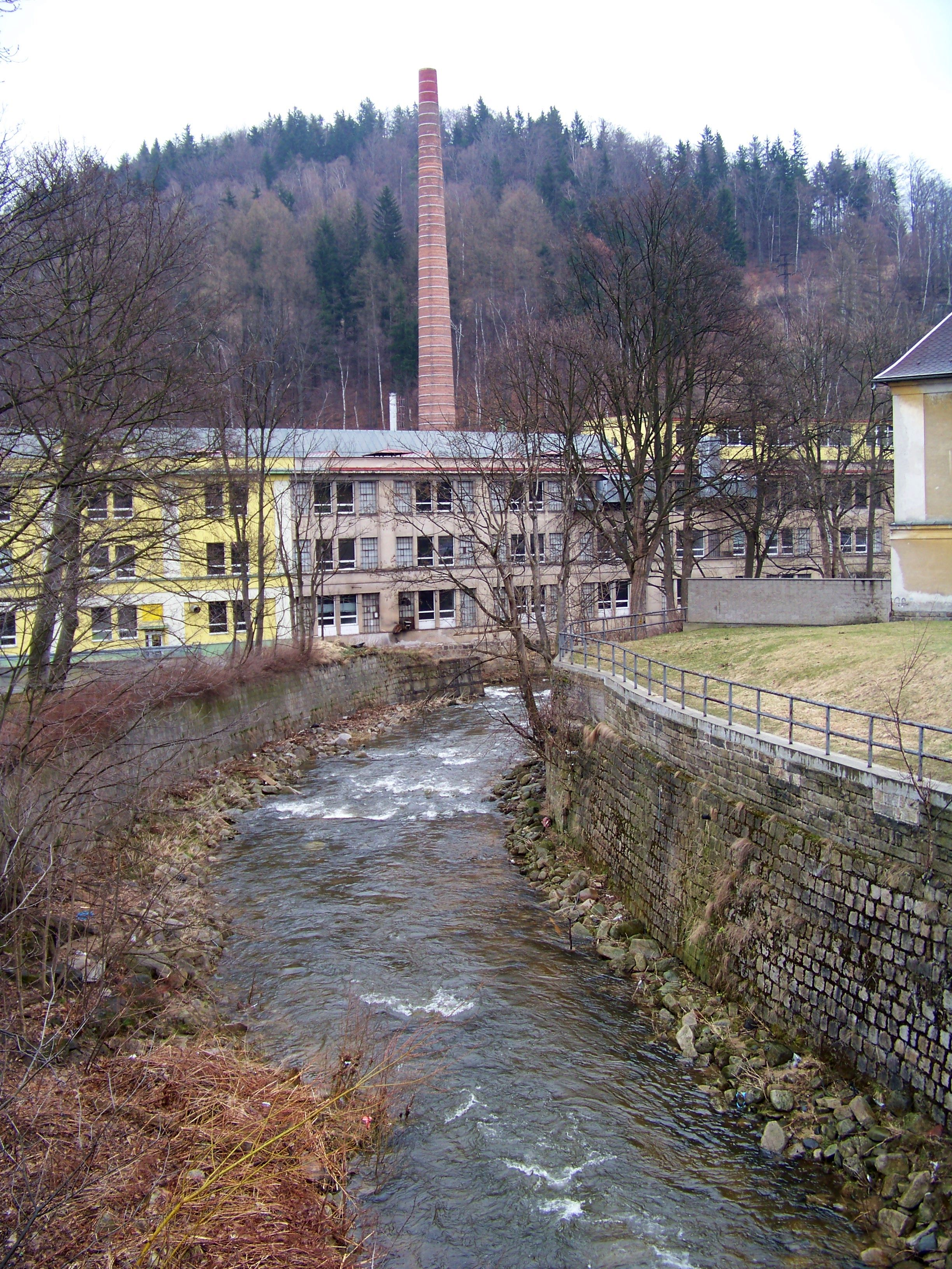 Tanvald, Jablonec nad Nisou District, Liberec Region, the Czech Republic. Kamenice River.